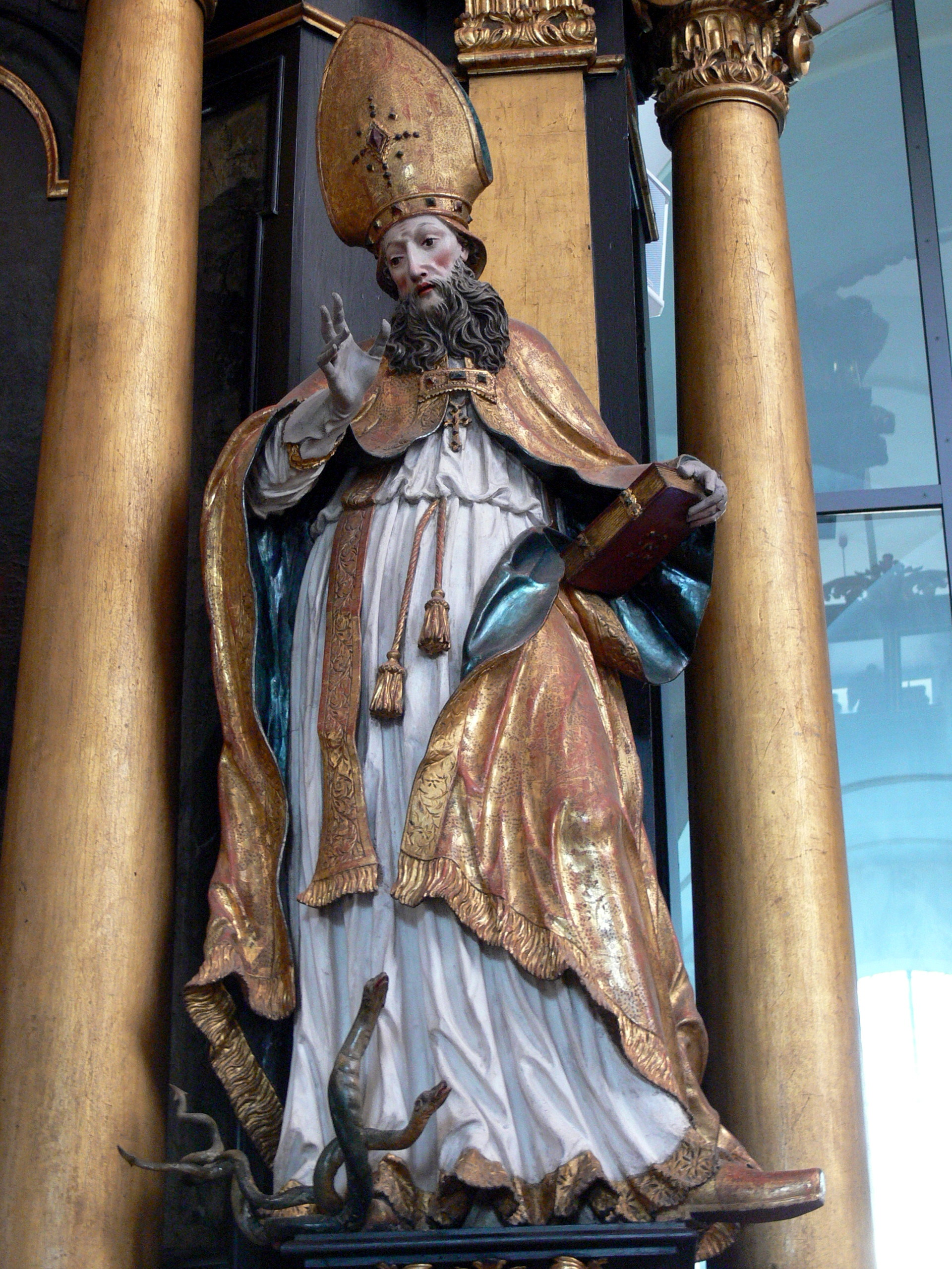 St.Michael parish church in Mondsee ( Upper Austria ). Altar of Saint John (1742) - Statue of Saint Hilaire of Poitier by Franz Anton Koch.